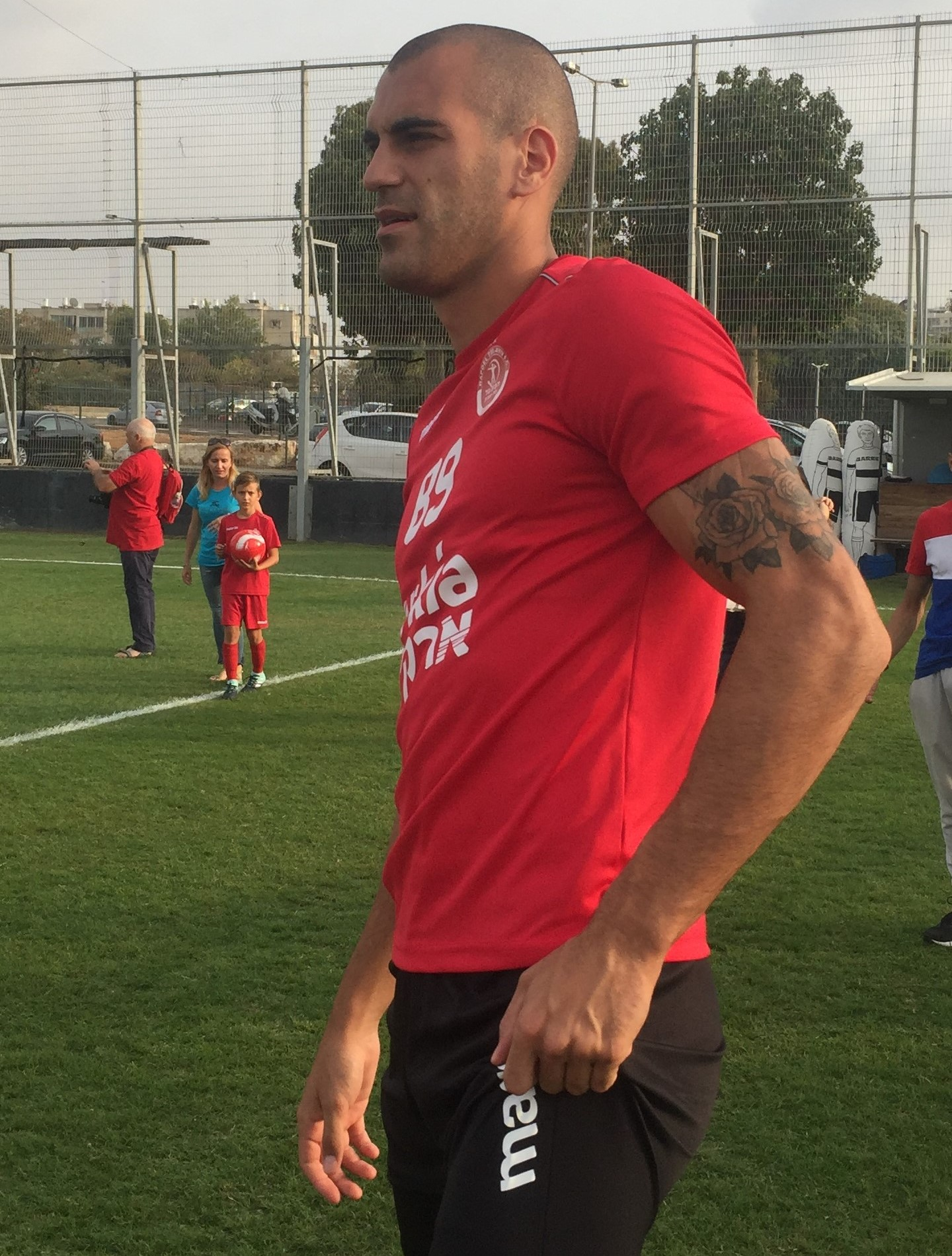 Hapoel Tel Aviv FC Player Fejsal Mulić, October 2018